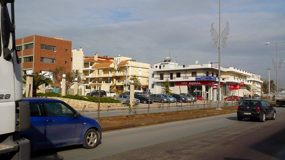 The picture depicts the Lavriou Avenue.